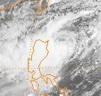 Satellite image of Tropical Storm Sarah (1986)